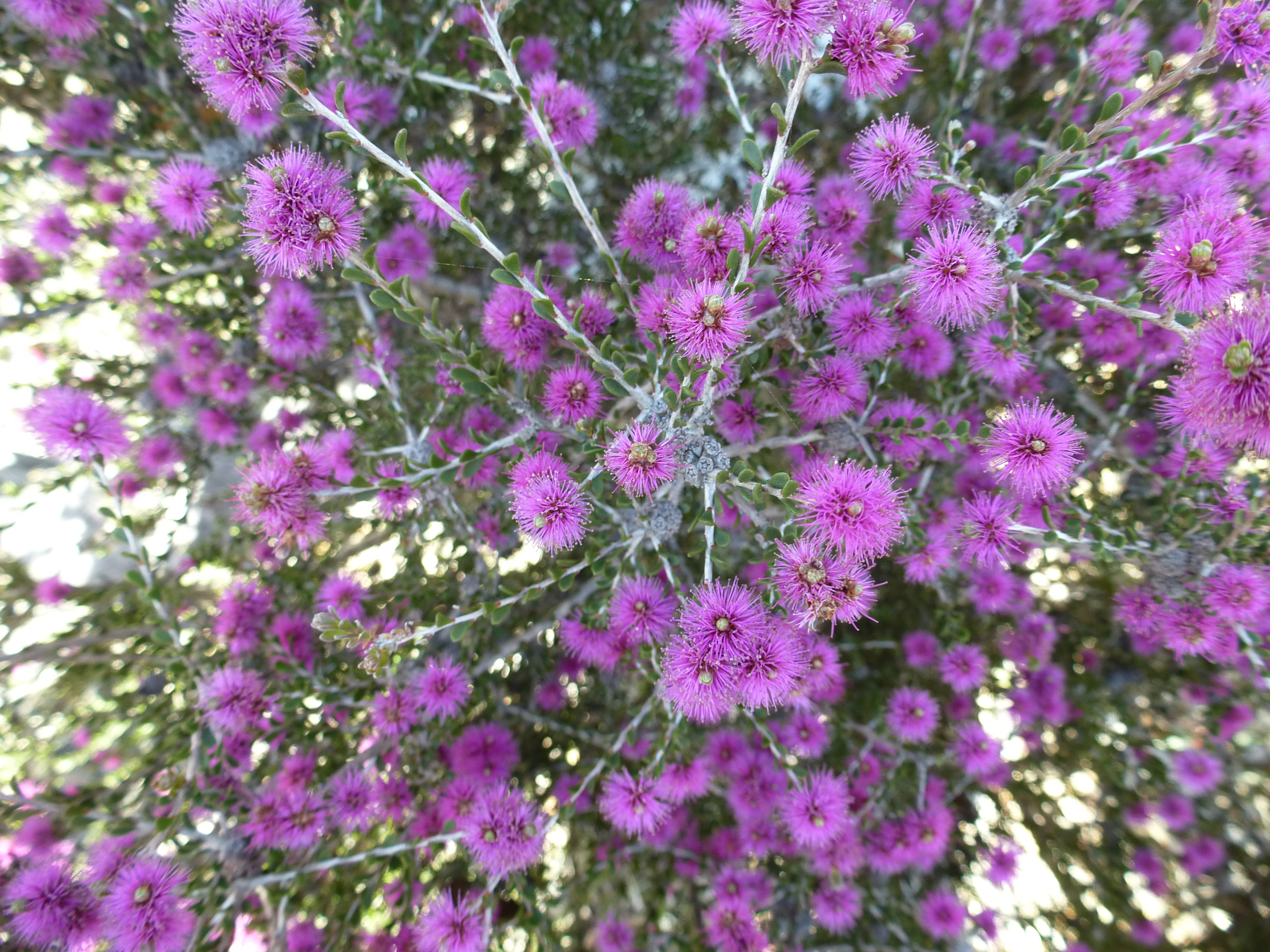 Melaleuca spathulata growing near Bluff Knoll Road